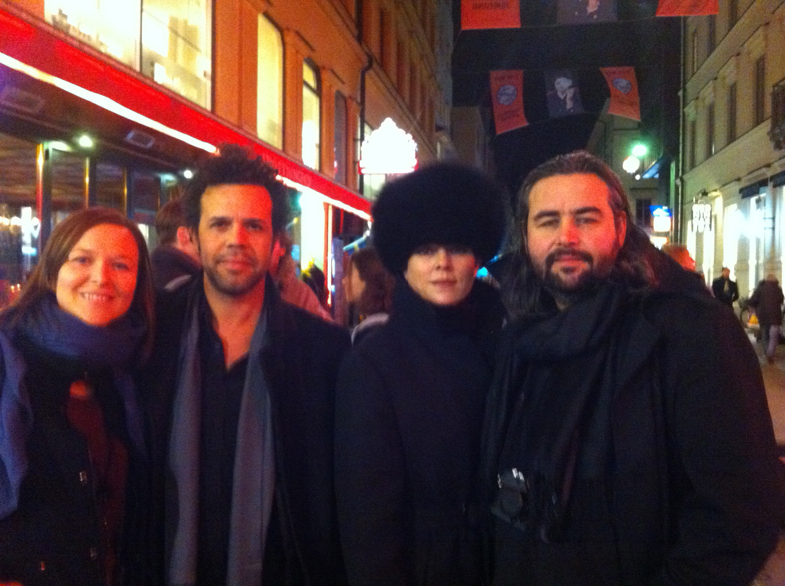 Premiere of movie "Call Girl". Second from left: director Mikael Marcimain.